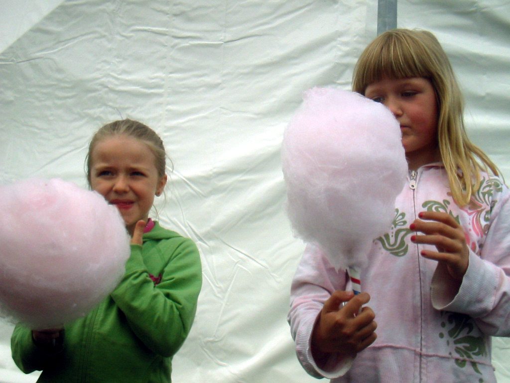 friendship